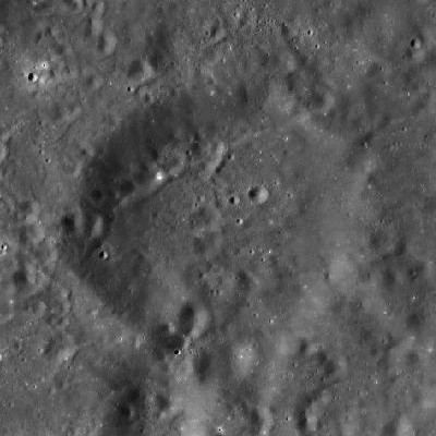 Ibn-Rushd crater, on the moon. Lunar Reconnaissance Orbiter Wide Angle Camera (WAC) mosaic.